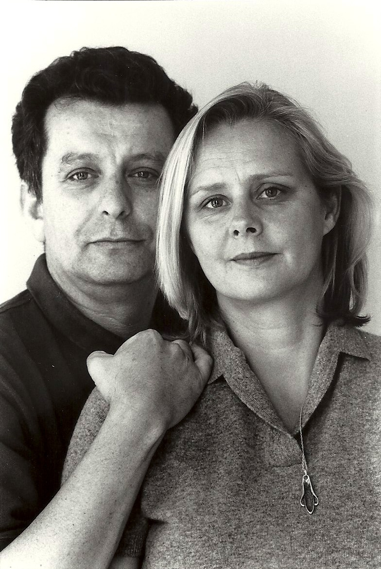 Benny Brunner and Alexandra Jansse.